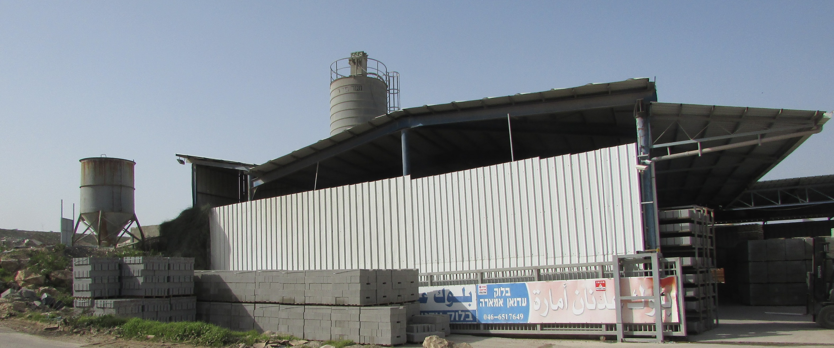 Cement blocks factory.